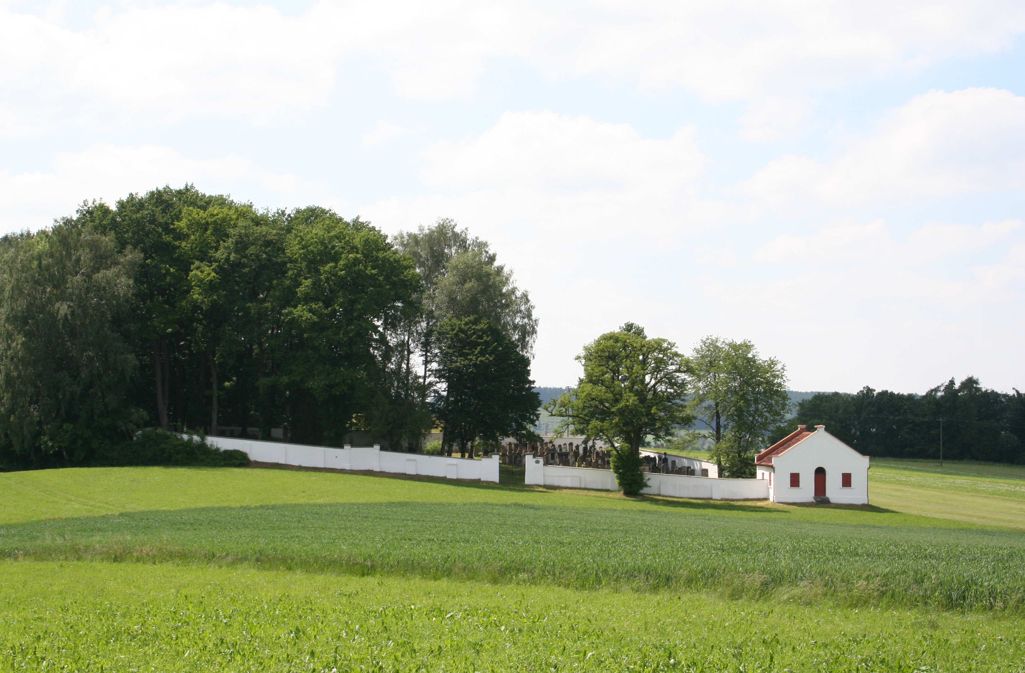 Jewish cemetery Krumbach-Hürben